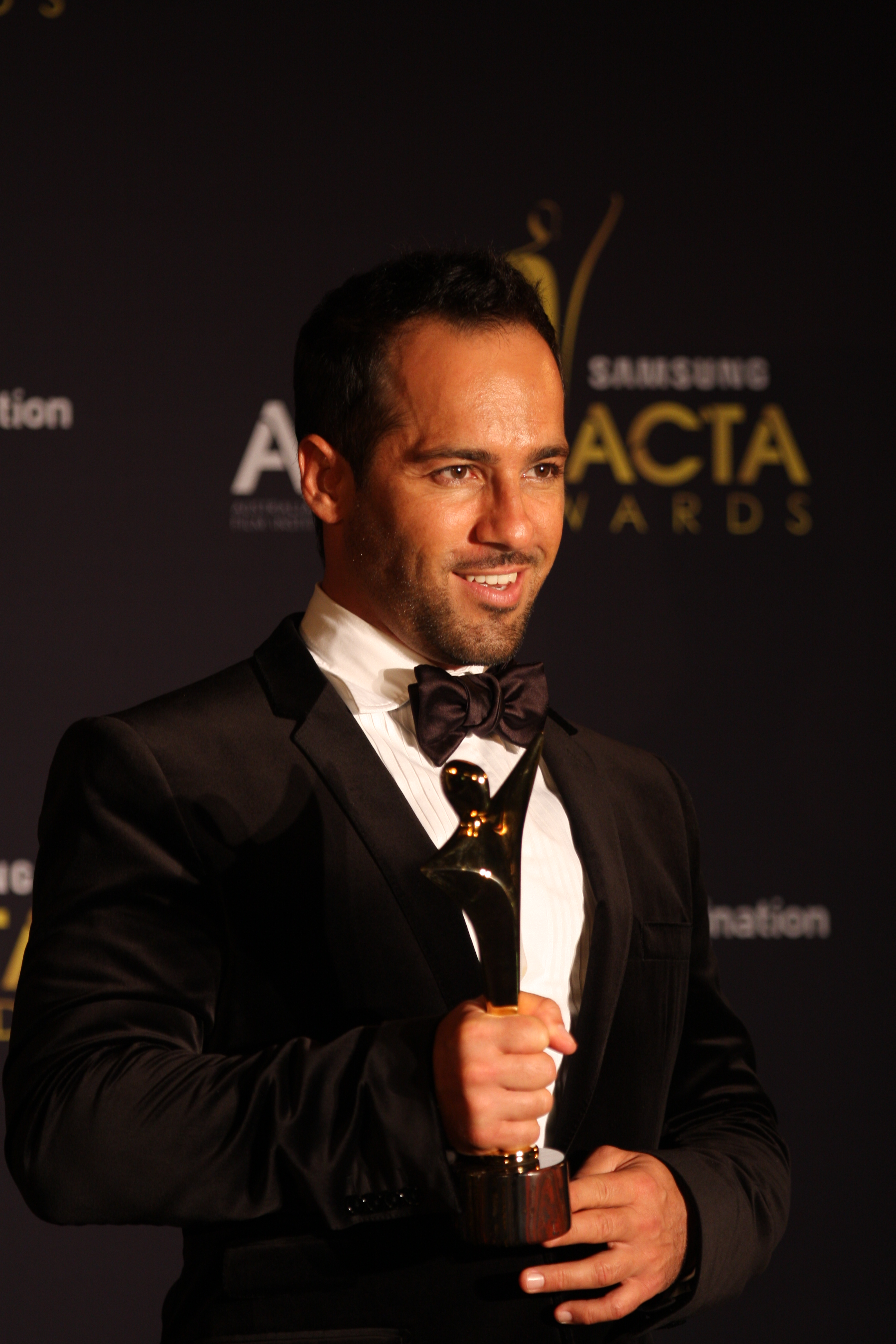 Alex Dimitriades holding his award for Best Lead Actor in a television drama at the 1st AACTA Awards in Sydney.